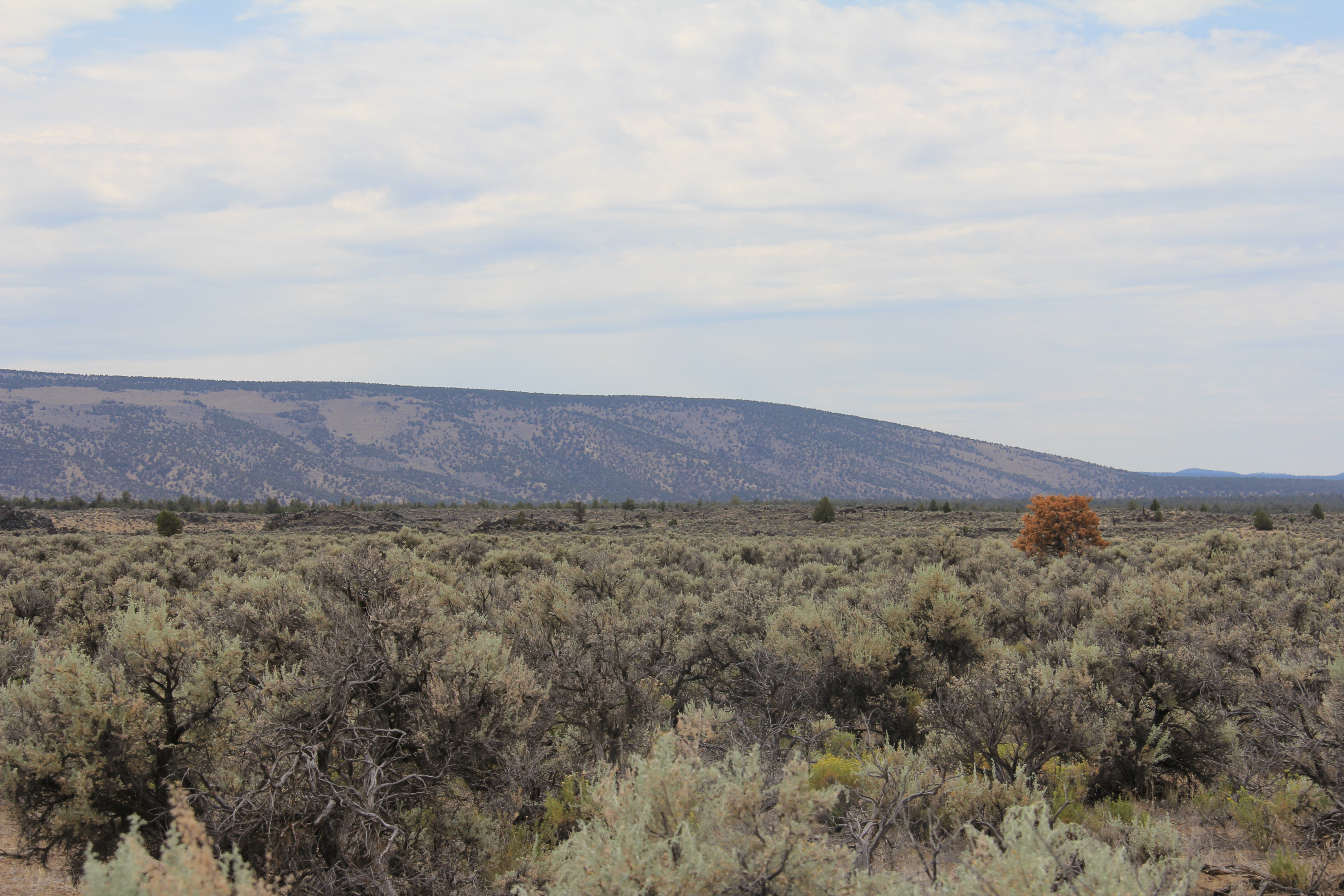 The United States Congress designated the Oregon Badlands Wilderness in 2009 and it now has a total of 29,261 acres. All of this wilderness is located in Oregon and is managed by the Bureau of Land Management. The Oregon Badlands Wilderness holds a number of remarkable and exciting landforms and geologic features. Most of the area includes the rugged Badlands volcano, which has features of inflated lava. Windblown volcanic ash and eroded lava make up the sandy, light-colored soil that covers the low and flat places in these fields of lava. Dry River, active during each of several ice ages, marks the southeast boundary between two volcanic areas – Badlands volcano and the Horse Ridge volcanoes. Earth movements along the Brothers Fault Zone have faulted and sliced up the old Horse Ridge volcanoes, but not Badlands volcano. The Badlands formed in an unusual way. The flow that supplied lava to the Badlands apparently developed a hole in the roof of its main lava tube. This hole became the source of lava that built a shield volcano that we call the Badlands (technically, a rootless shield volcano). An irregularly-shaped pit crater at the top of the shield marks the site where lava flowed in all directions to create the Badlands. It is located about 1500 feet northeast of milepost 15 on Highway 20. Highway 20 traverses the shield along a straight, five-mile stretch between the intersections with an old section of Highway 20 (between mileposts 12.6 and 17.5). Soils in the Badlands were largely formed from ash associated with Mt. Mazama, now known as Crater Lake. A variety of wildlife species inhabit the area including yellow-bellied marmots, bobcat, mule deer, elk, and antelope. The southern portion of the Badlands Wilderness includes crucial winter range for mule deer. Avian species include prairie falcons and golden eagles. Additional information about the Oregon Badlands Wilderness, and all the other BLM Wilderness areas in Oregon/Washington, is available online at